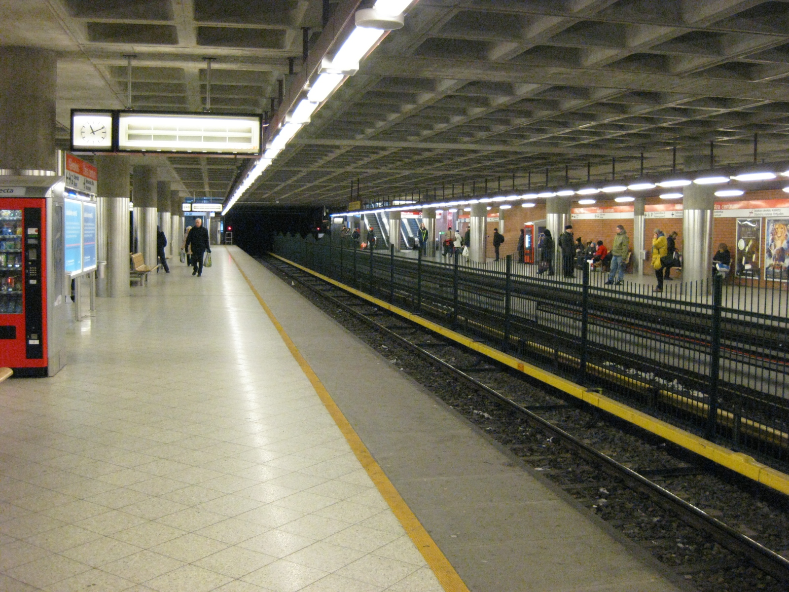 Itäkeskus metro station, Itäkeskus, Helsinki